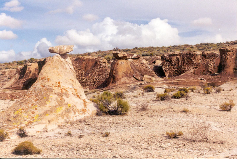 Weepah Spring Wilderness in northwestern Lincoln County, Nevada, USA.